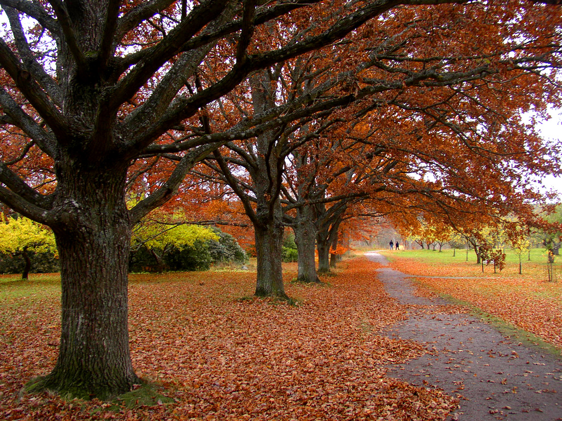 Explore Highest position: 423 on Tuesday, November 24, 2009